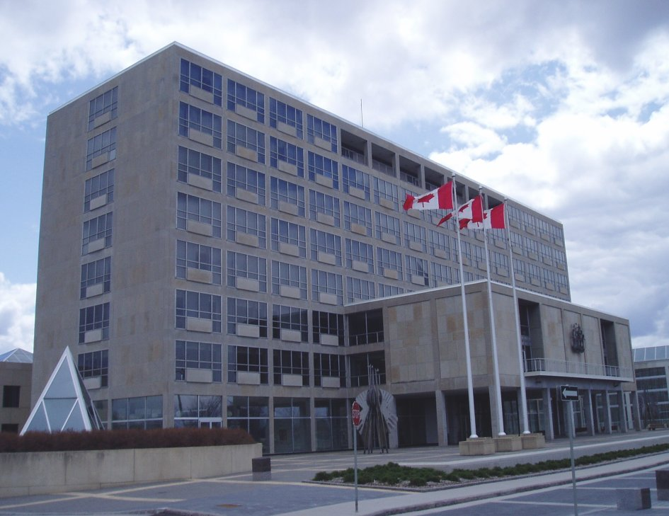 Taken by SimonP in May 2005